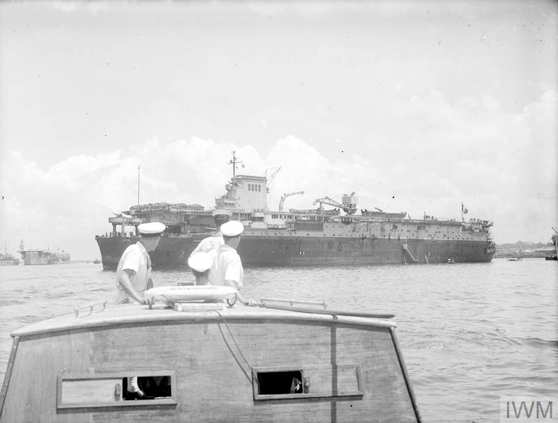 The French aircraft transport Béarn anchored in Colombo Harbour